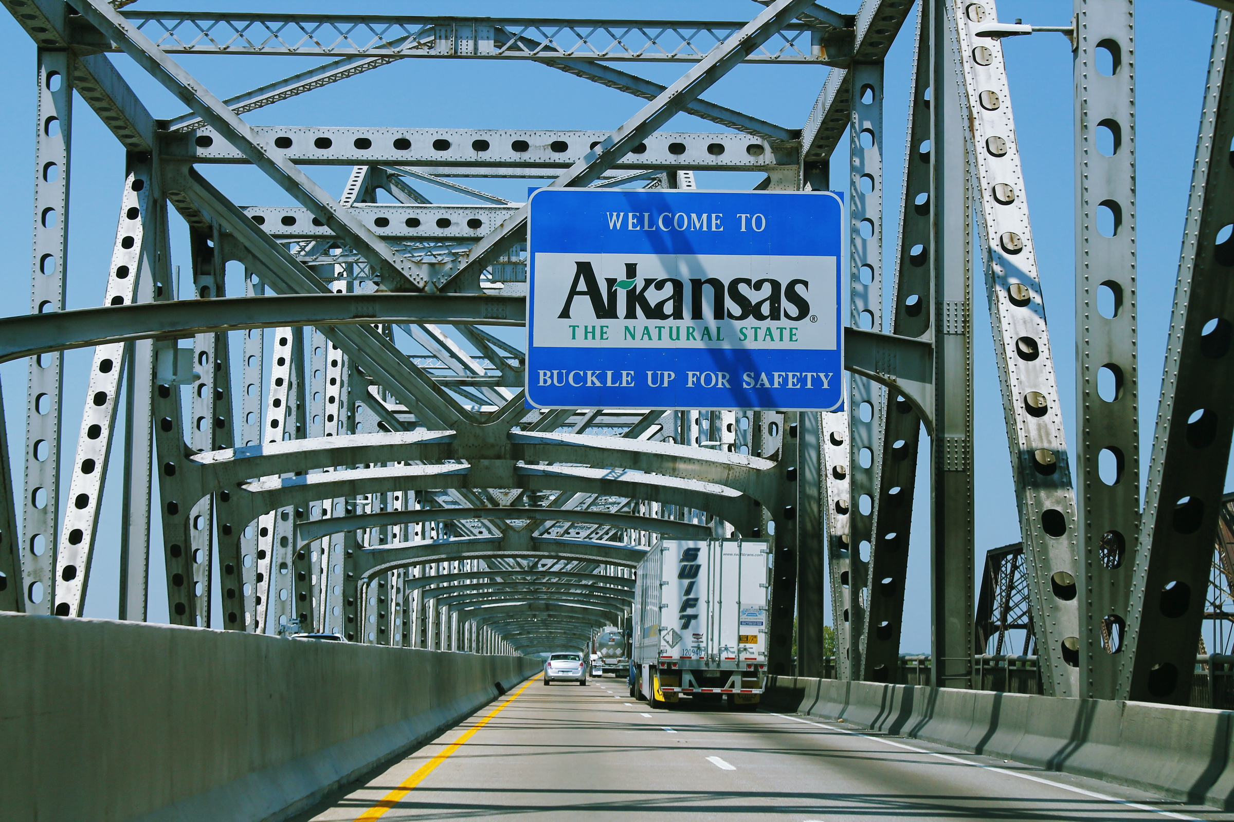 Int55nRoad-BridgeOverMississippi-ARborder